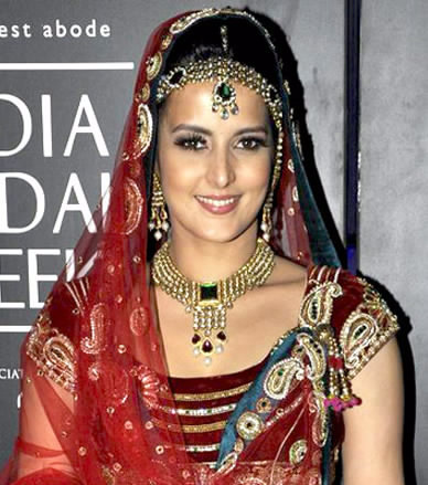 Tulip Joshi walk for Jaya Misra at Aamby Valley City India Bridal Week 2010